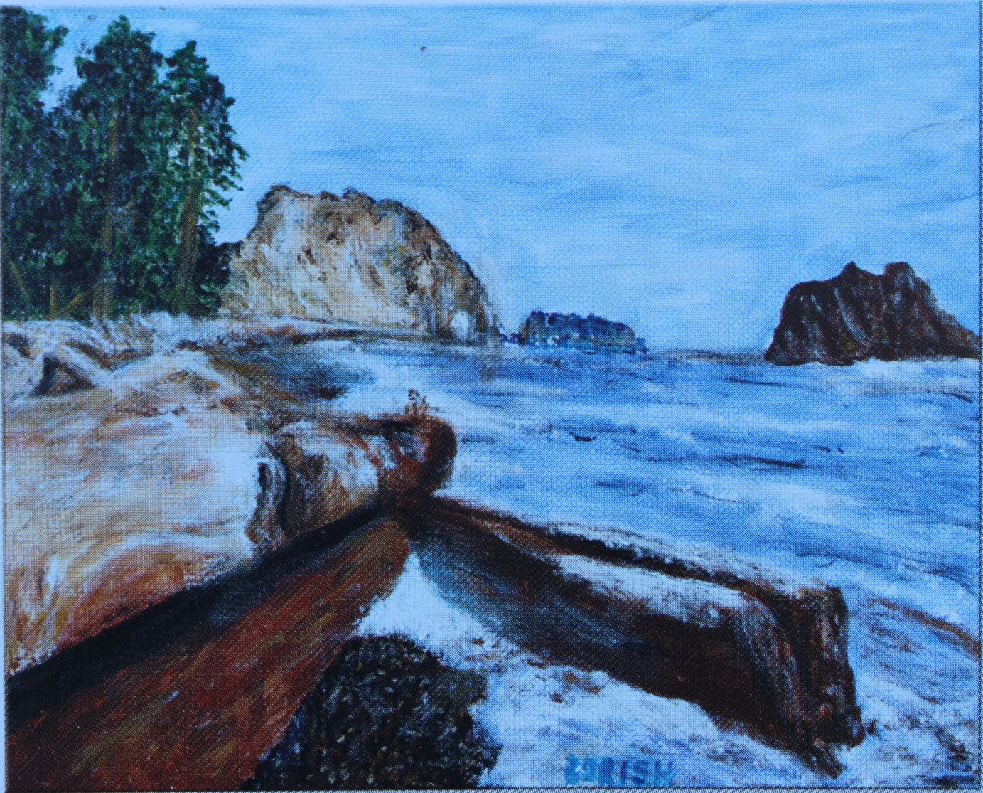 Photo of the painting by Irvin Borish titled Seascape from 1997. Beth Roman collection.